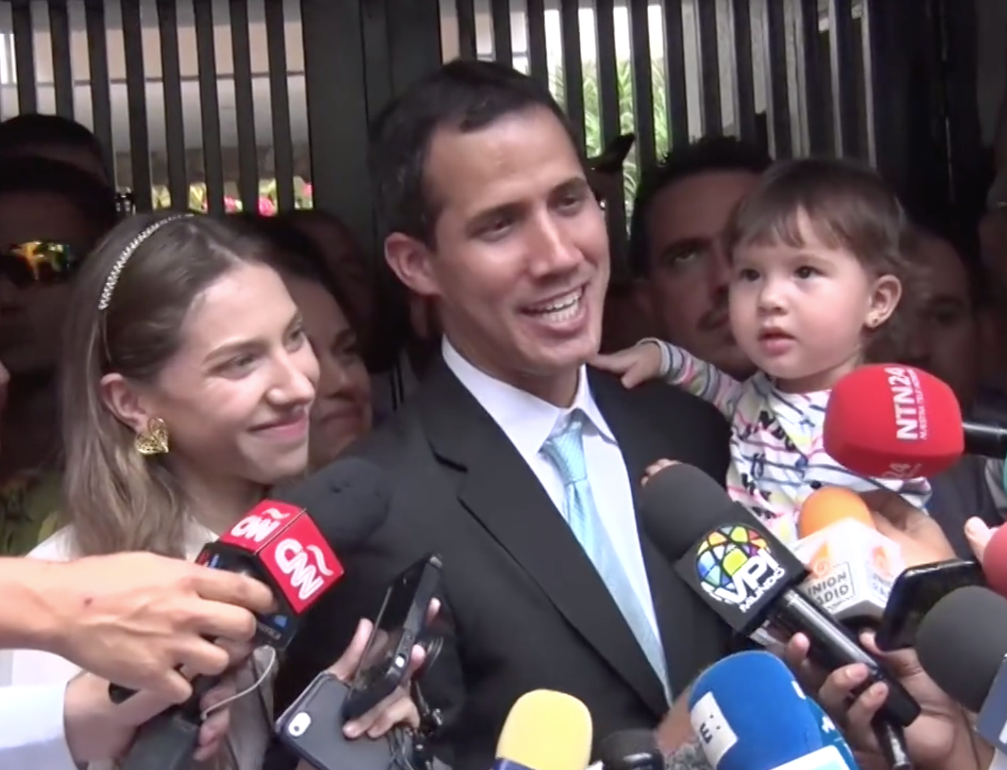 Juan Guaidó and his family following alleged threats by pro-Maduro authorities on 31 January 2019.